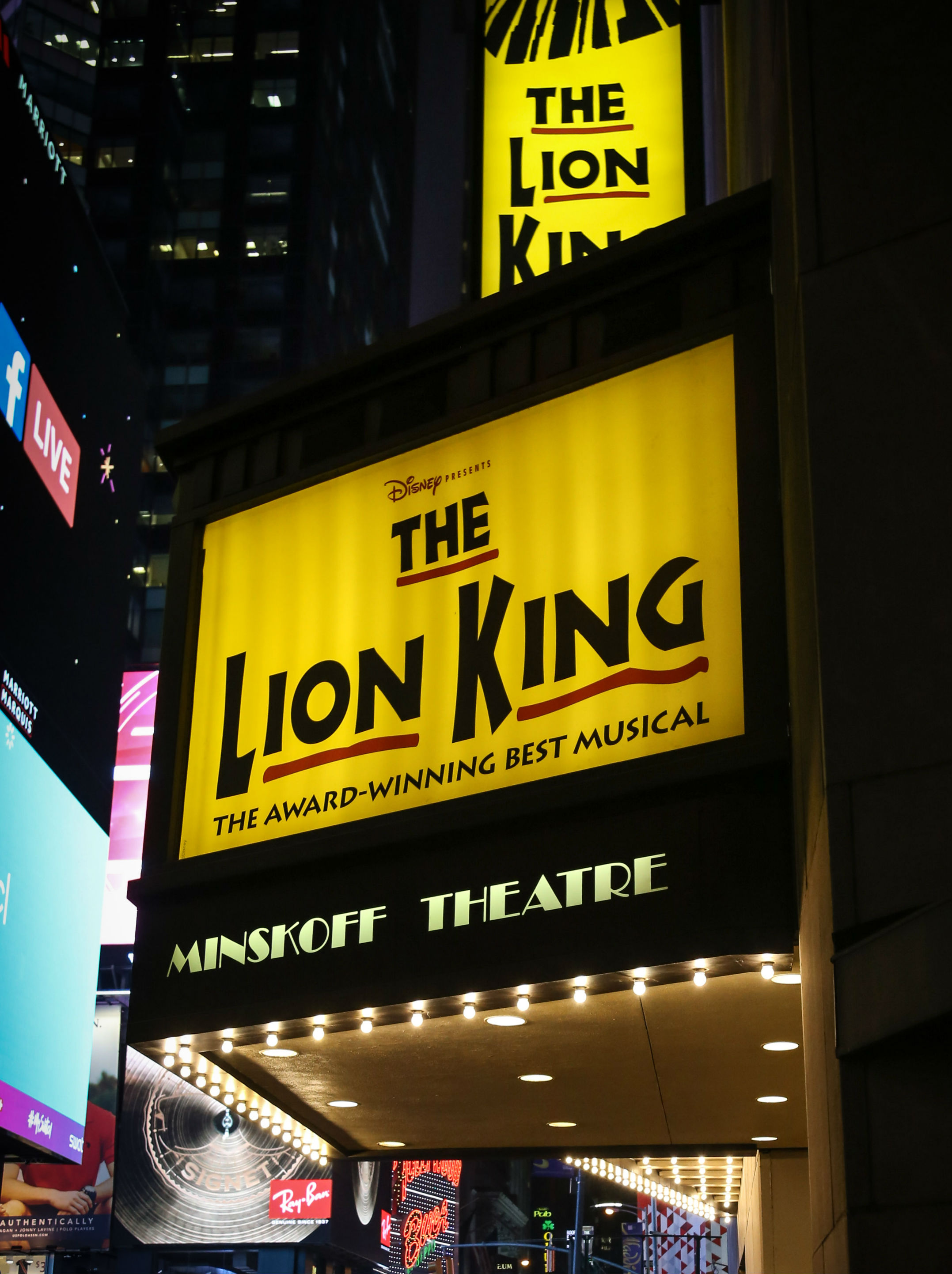 The Lion King at Minskoff Theatre in Broadway